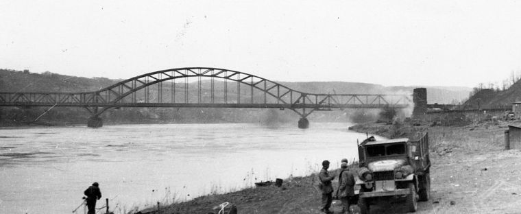 A side view of the Remagen Bridge in March 1945 before it collapsed into the Rhine. Claude Musgrove took this picture of the famous Ludendorff Bridge over the Rhine River at Remagen, Germany. The smoke under and behind the bridge is from German artillery rounds trying to destroy the miraculously surviving link that let Allied forces cross the river.